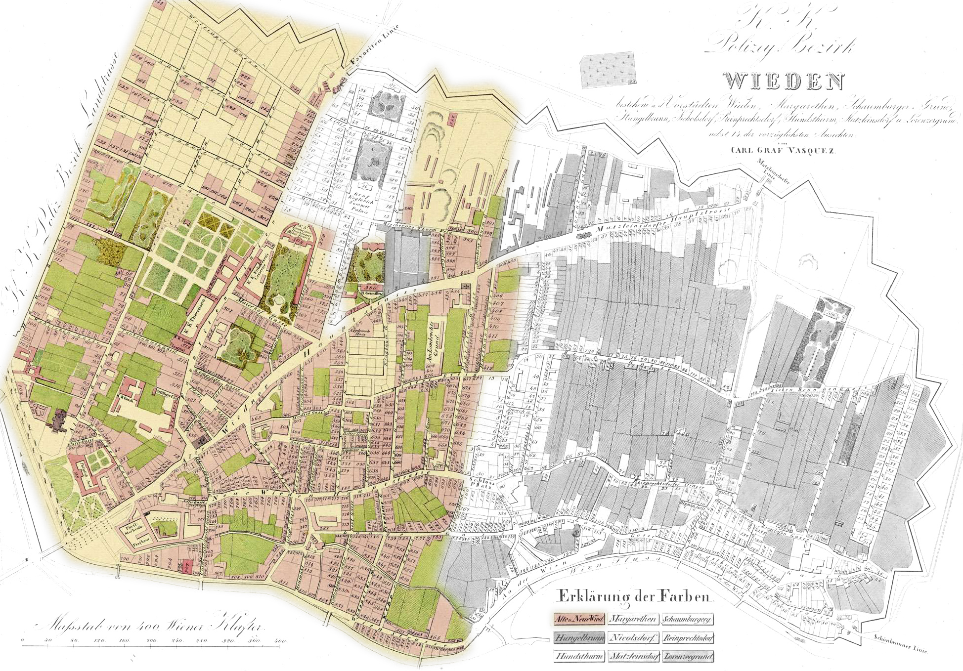 Map of Vienna / Wieden, approx. 1830